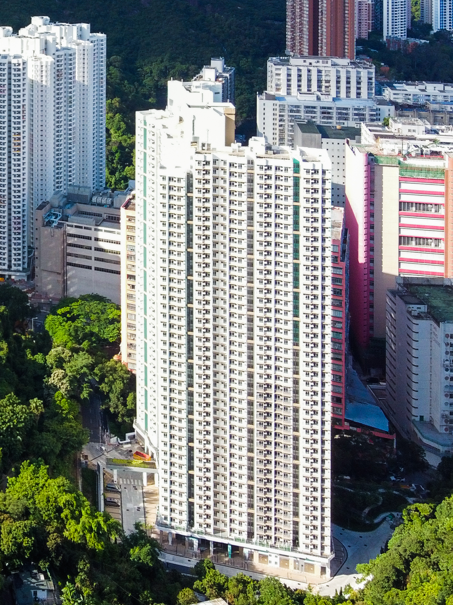 Choi Wo Court